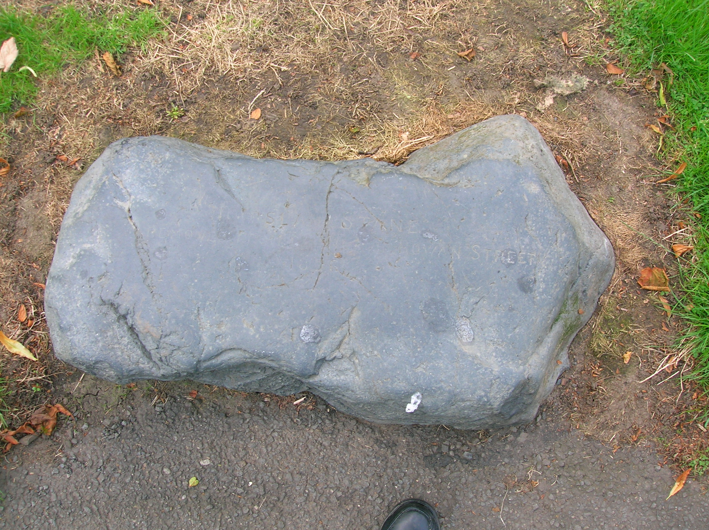 The Dooslan Stone, Brodie Park, Paisley, Scotland